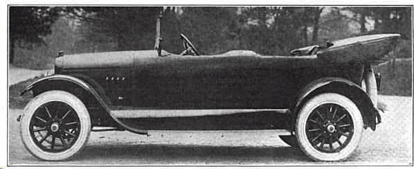 1916 H.A.L. Twelve Touring with Weidely V-12 engine.